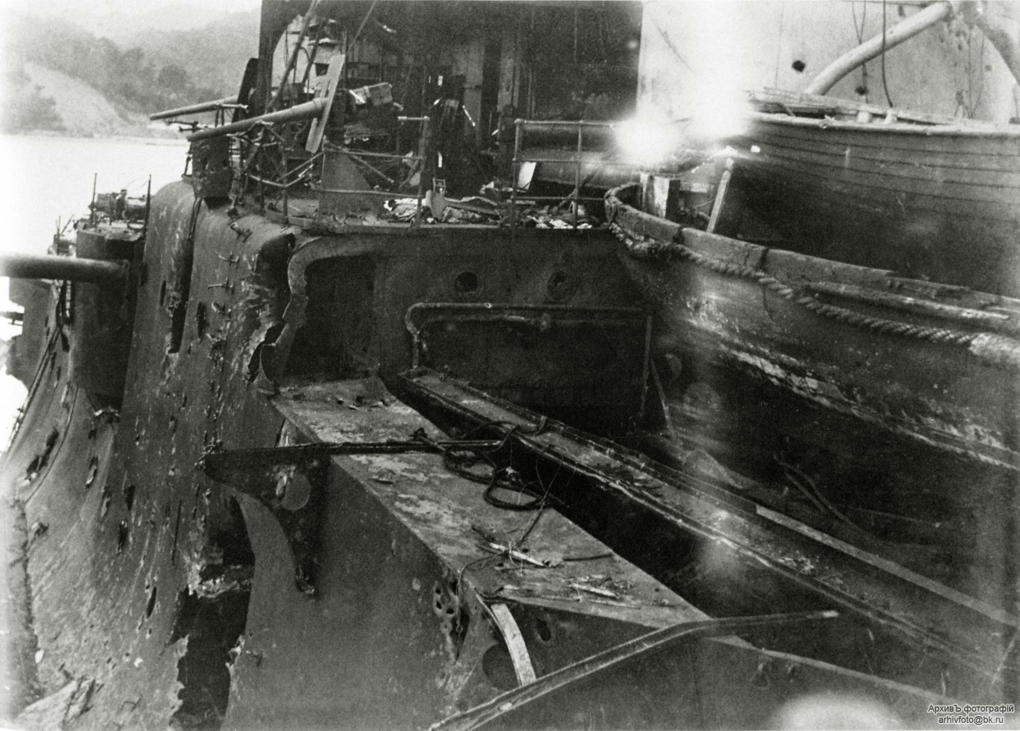 Some of the damage suffered by Orel